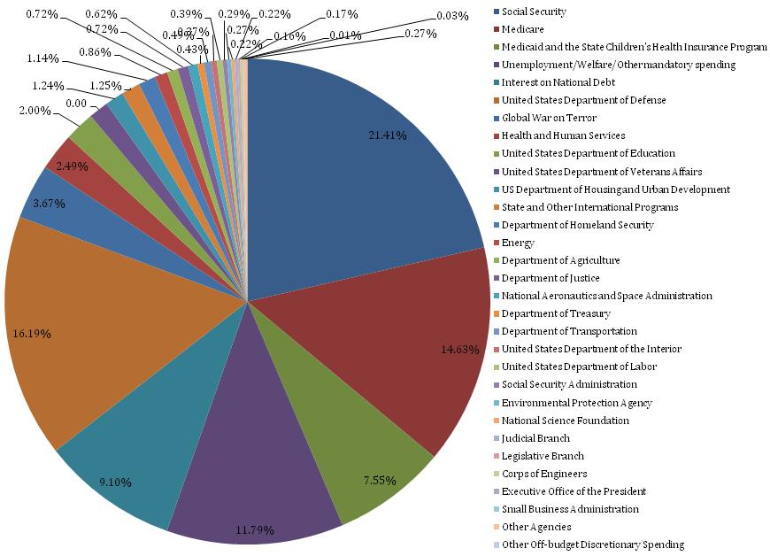 Ktr101, GPO Access, created via spreadsheet from data contained in article page